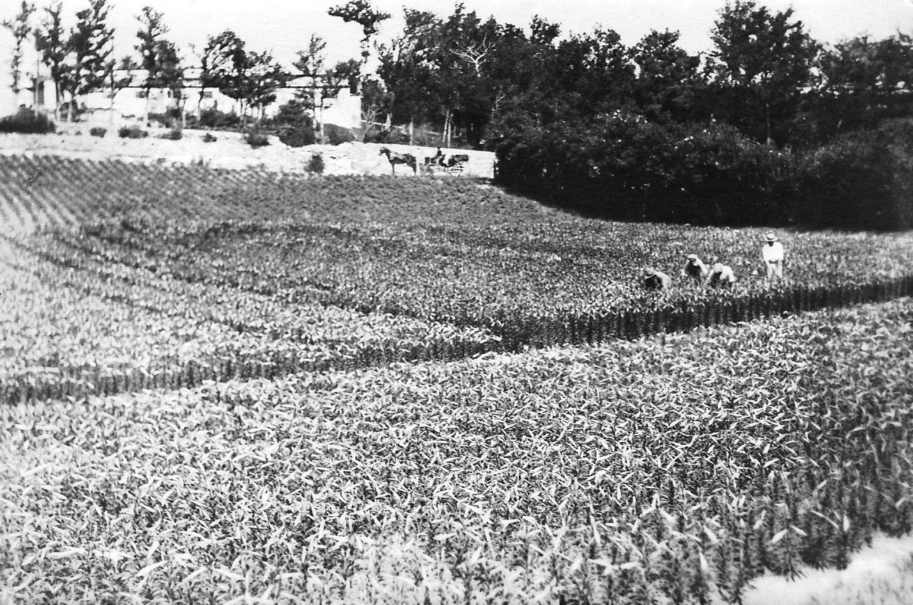 Picture scanned by the contributor. Picture taken by the deceased father of the contributor in 1926 in Bermuda.